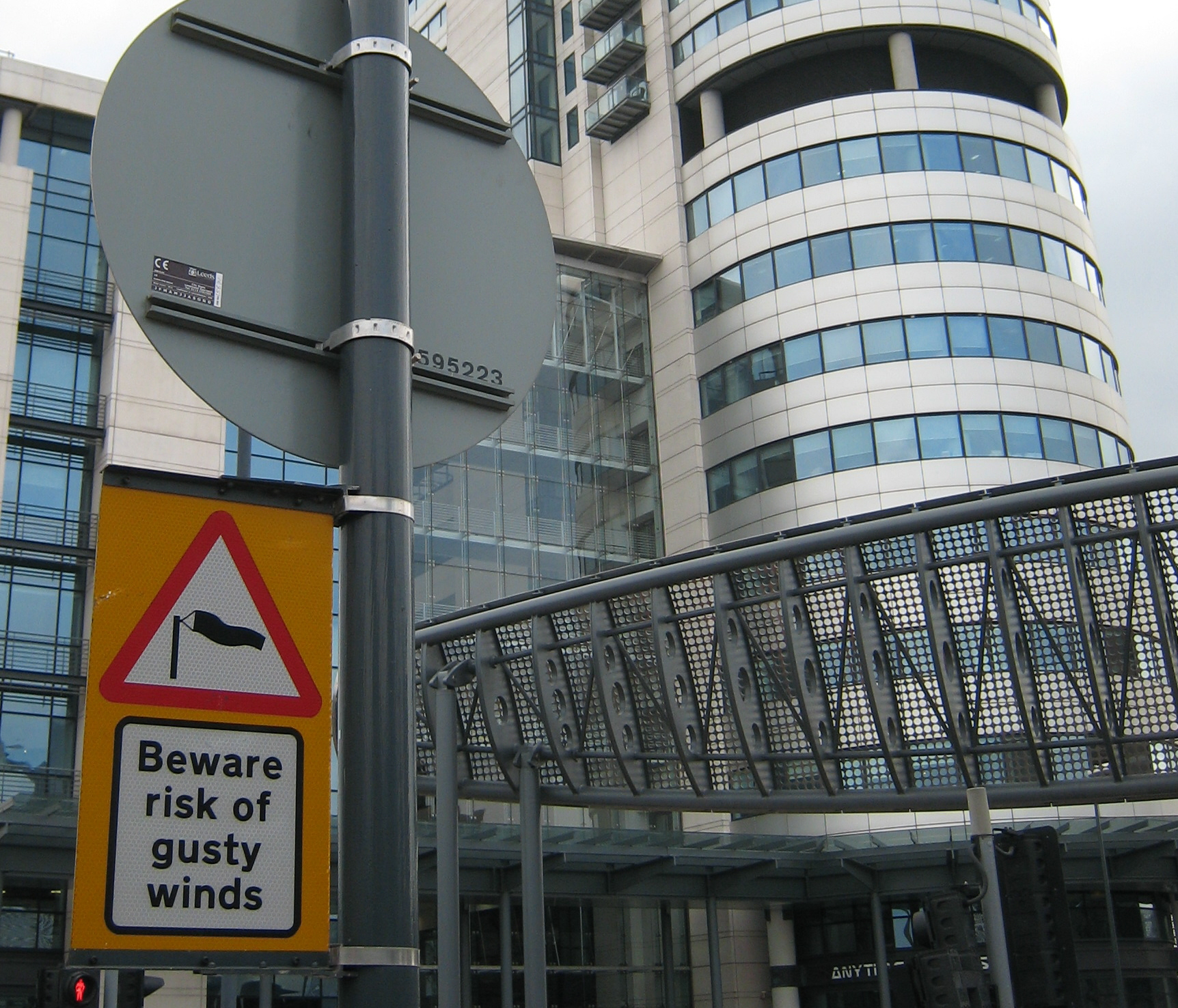 Sign outside Bridgewater Place, Leeds. "Beware risk of gusty winds". Close-up of Gusty winds Bridgewater 2018 1.